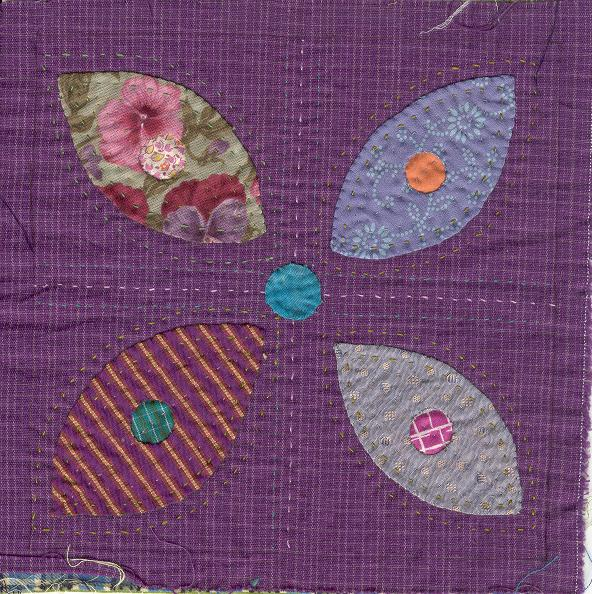 Qulit block of a flower in applique and reverse applique